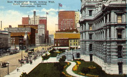 Indianapolis, Indiana, in the 1910s, from period postcard. On the right of the postcard is the Marion County Courthouse, which was demolished in the 1960s following the construction of the modern City-County Building. The street on the left is Washington Street. Source Scanned by Infrogmation (talk) from original postcard in own collection.